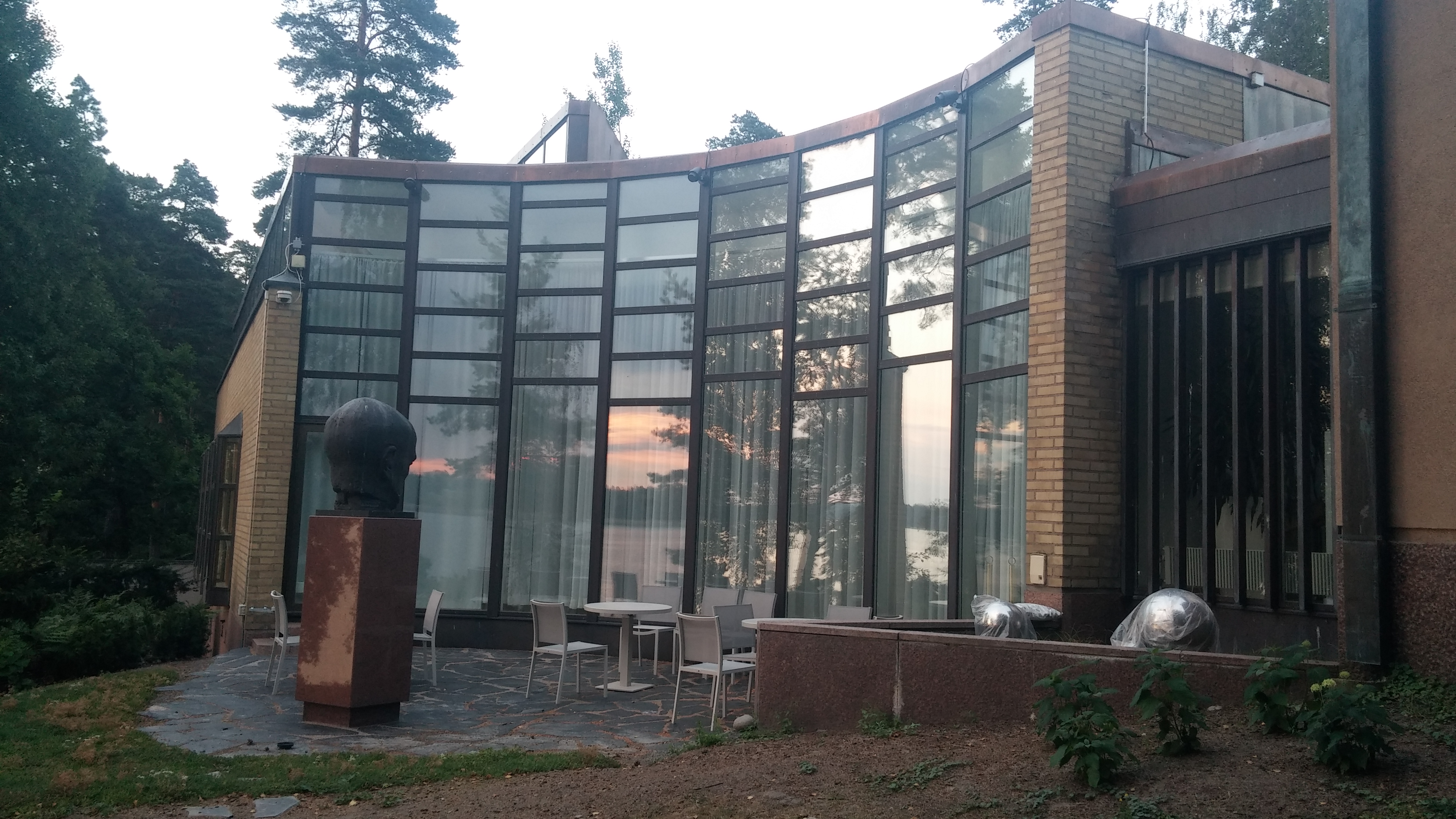 Villa Gyllenberg is an art museum in Helsinki, Finland.